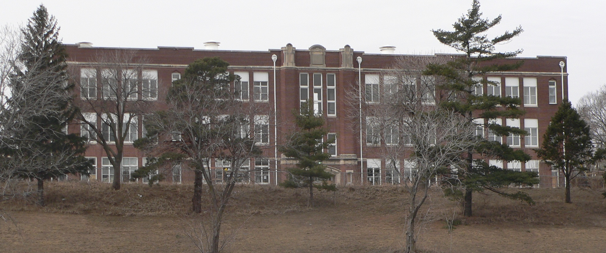 Park School, located at 1320 S. 29th Street (west side of 19th between Poppleton and Woolworth Avenues) in Omaha, Nebraska; seen from the east, across Interstate 480.